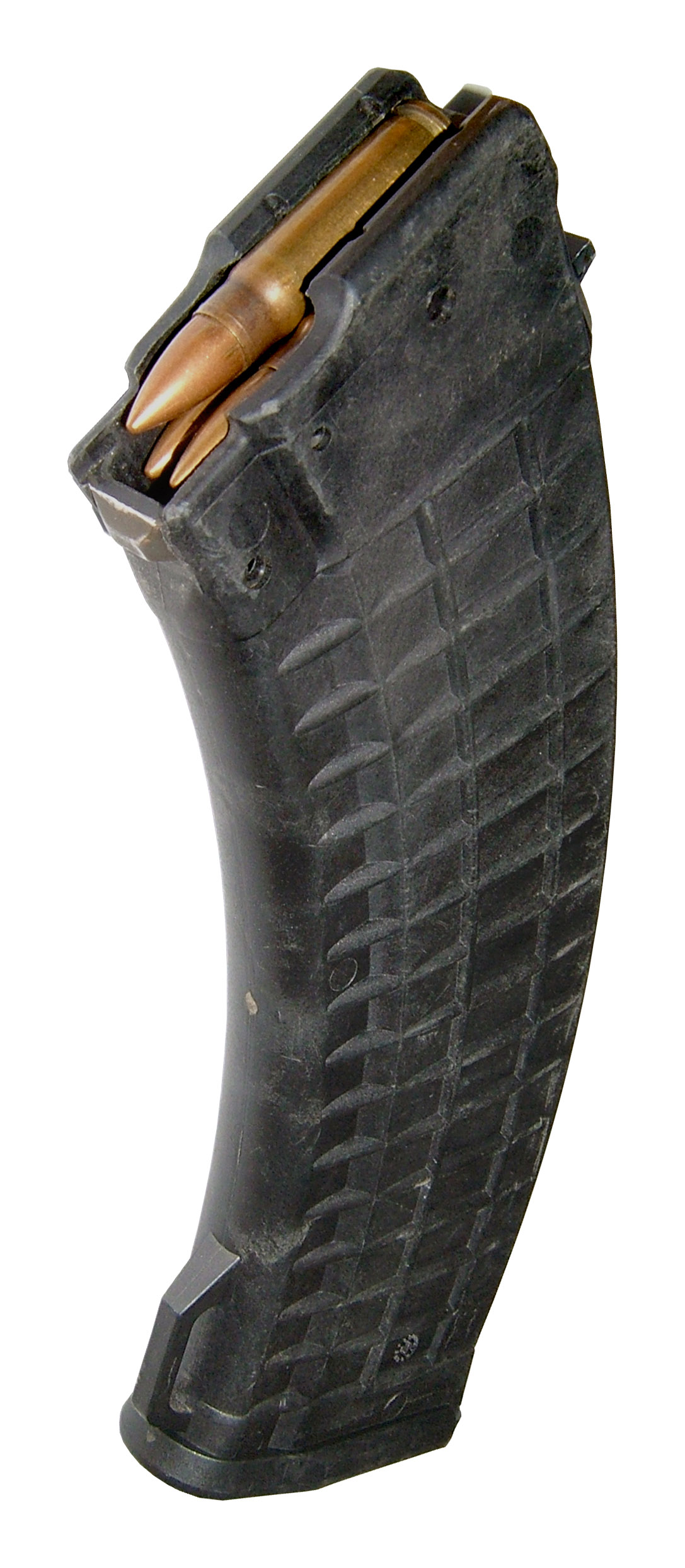 Plastic magazine of a Finnish 7.62 RK-62 assault rifle.